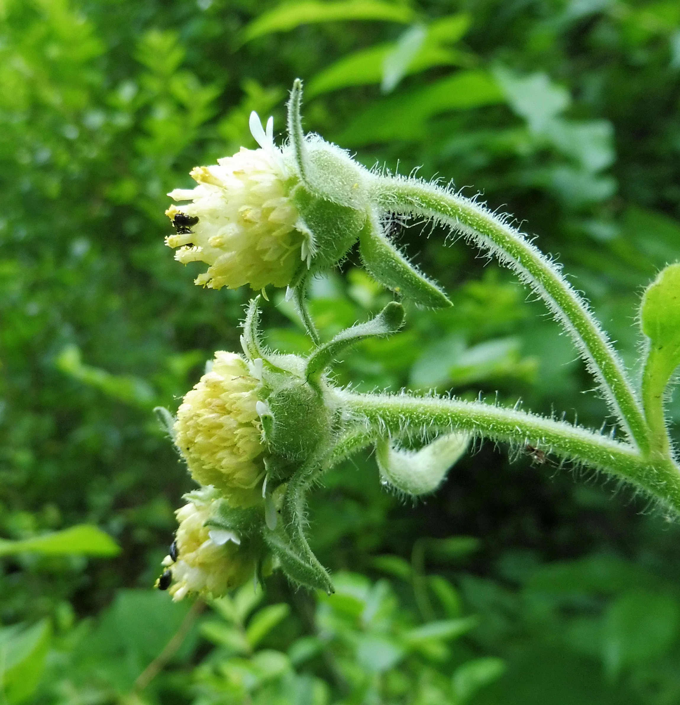 Polymnia canadensis, mesic calcareous openings along base of Cumberland River bluff along Big Bottom Road, Jackson County, Tennessee.